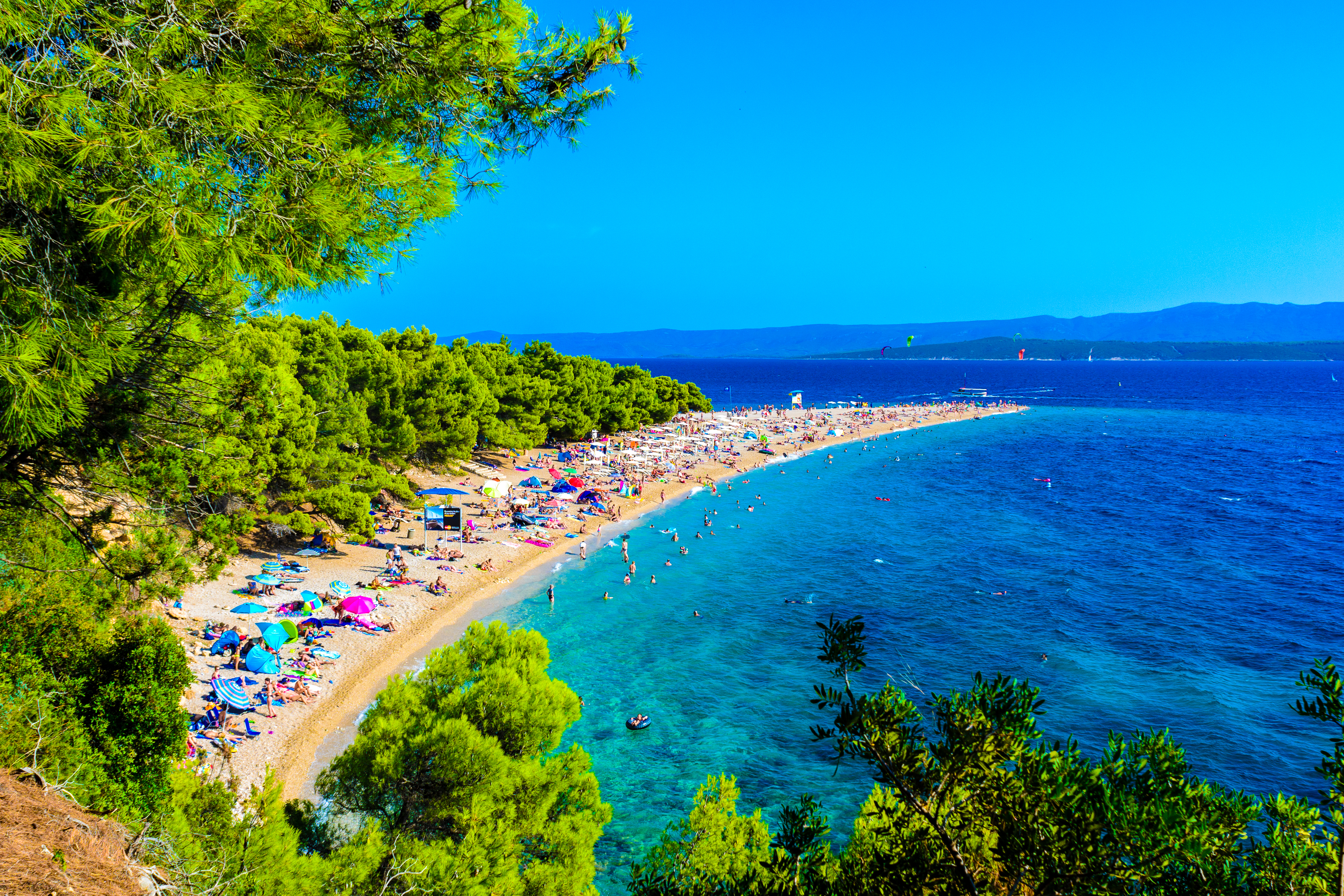 Island Brac